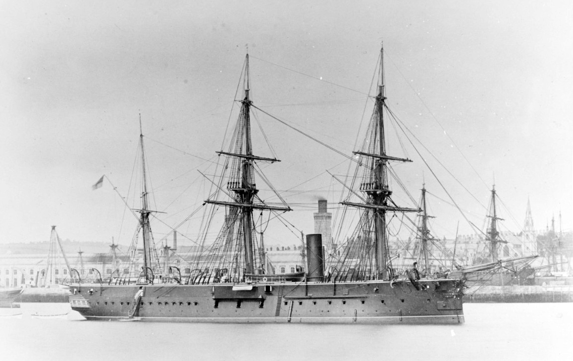 The British central battery ironclad HMS Iron Duke (1870).